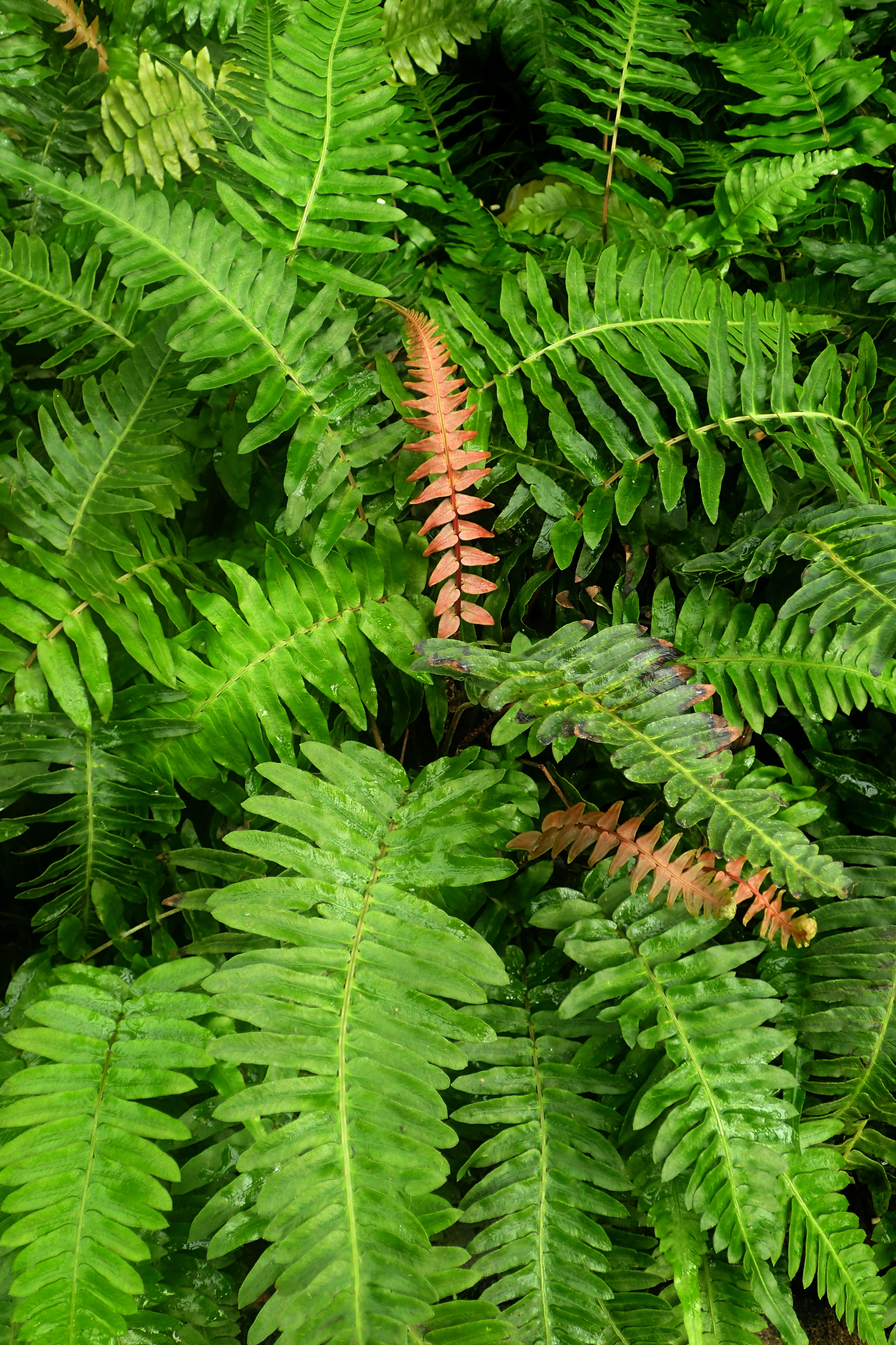 Blechnum occidentale at Garfield Park Conservatory